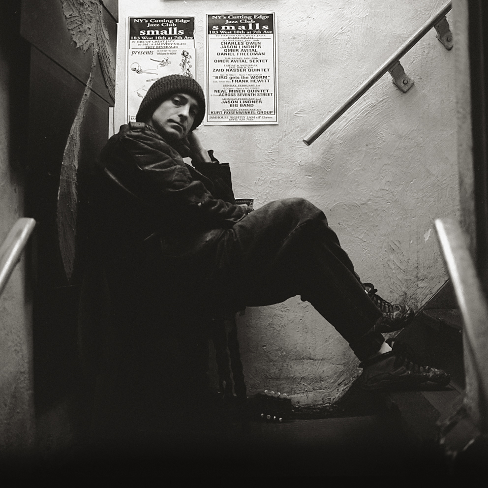 Mitchell Borden in april 1998 at the staircase of Smalls jazz club